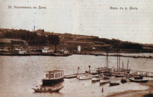 Yacht club of Nakhichevan-on-Don